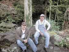 Appalachian Dysfunctional Folk Rock from Clintwood, Virginia